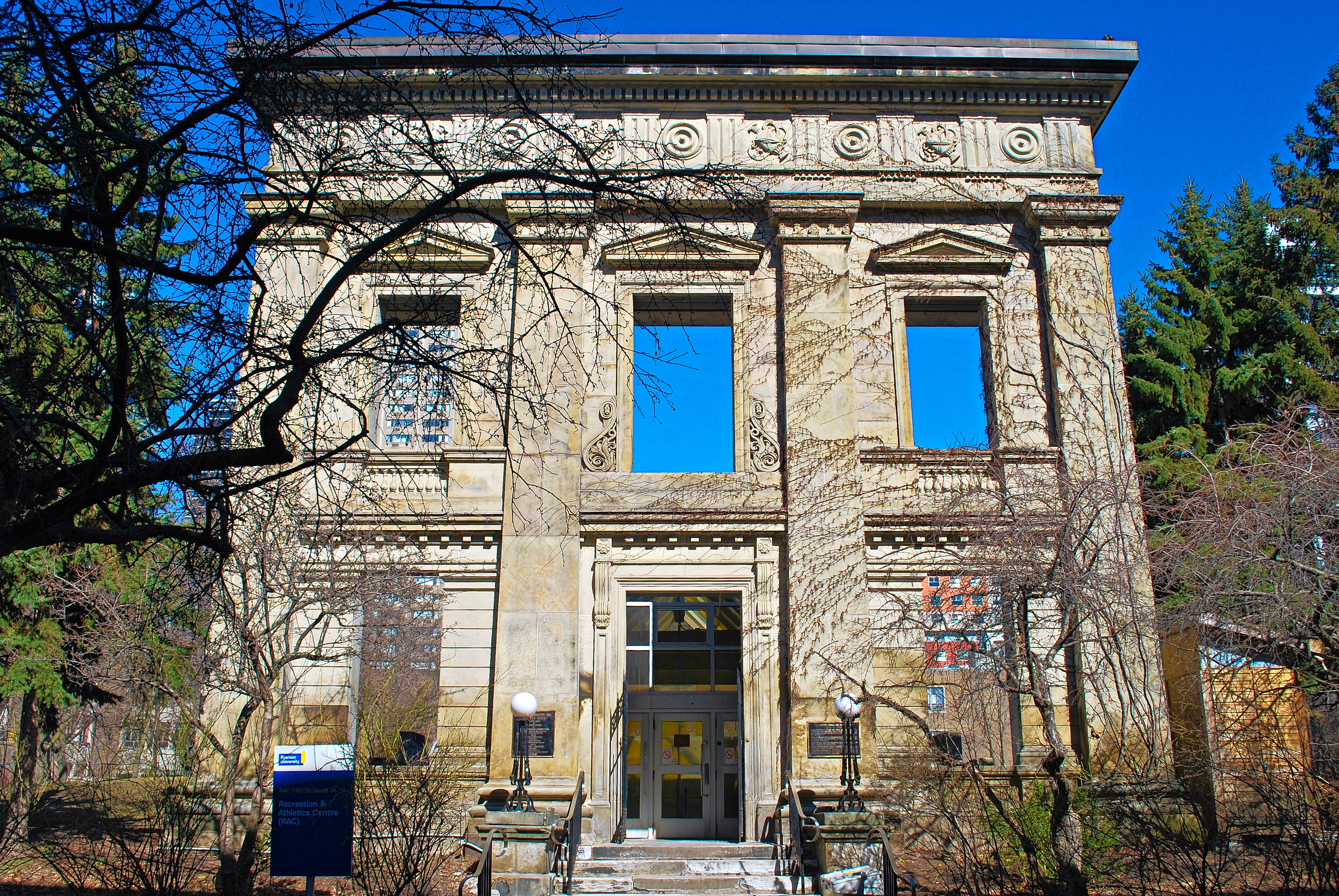 The facade of the Toronto Normal School in 2019.